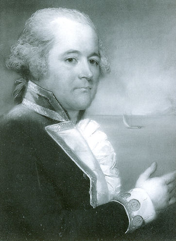 Rear Admiral William Bligh, 1791